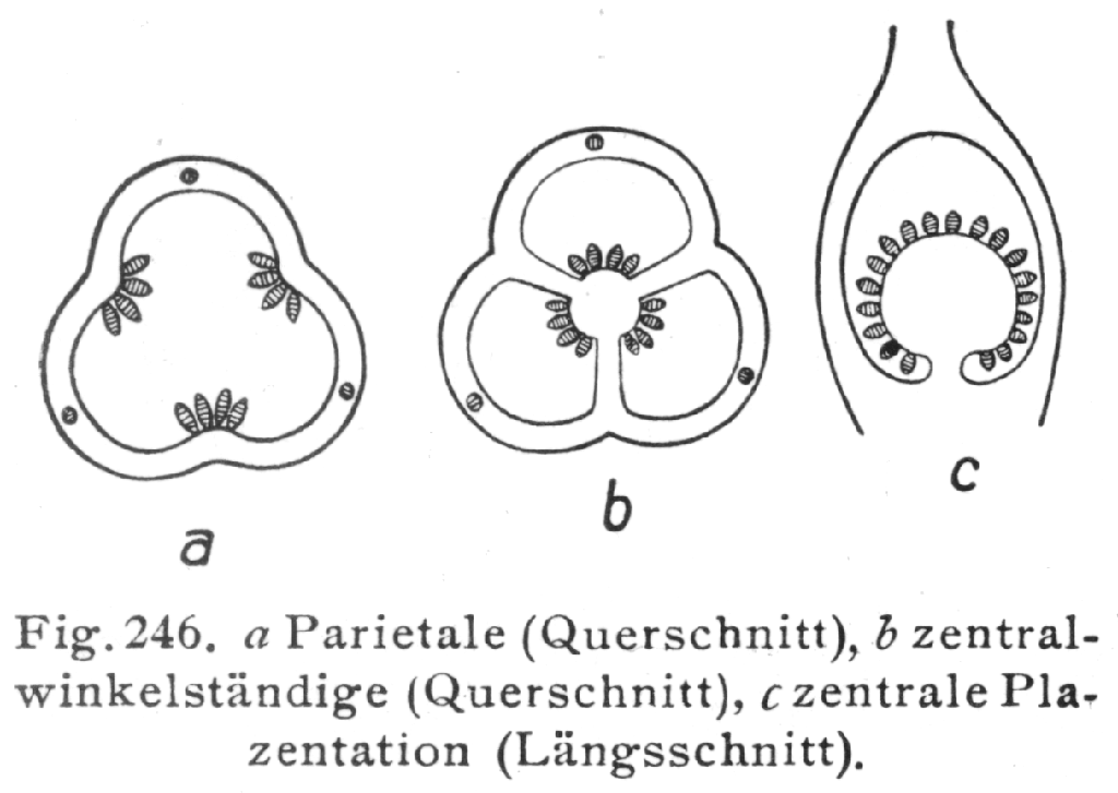 Figure 246 from Hegi, G.: Illustrierte Flora von Mittel-Europa, p. 130. Caption: Fig. 246 a Parietal (cross-section), b axile (cross-section), c central placentation (longitudinal section).